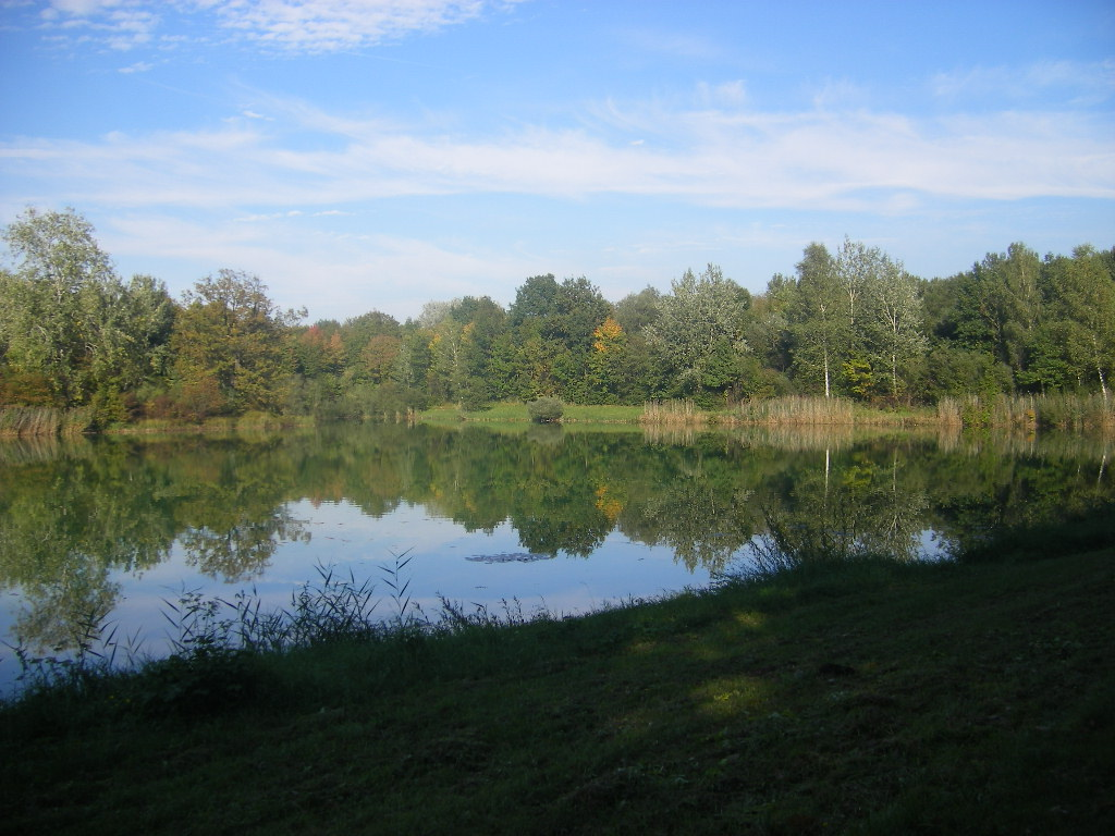 Danube at Pförring (Donauradweg between Vohburg and Neustadt)